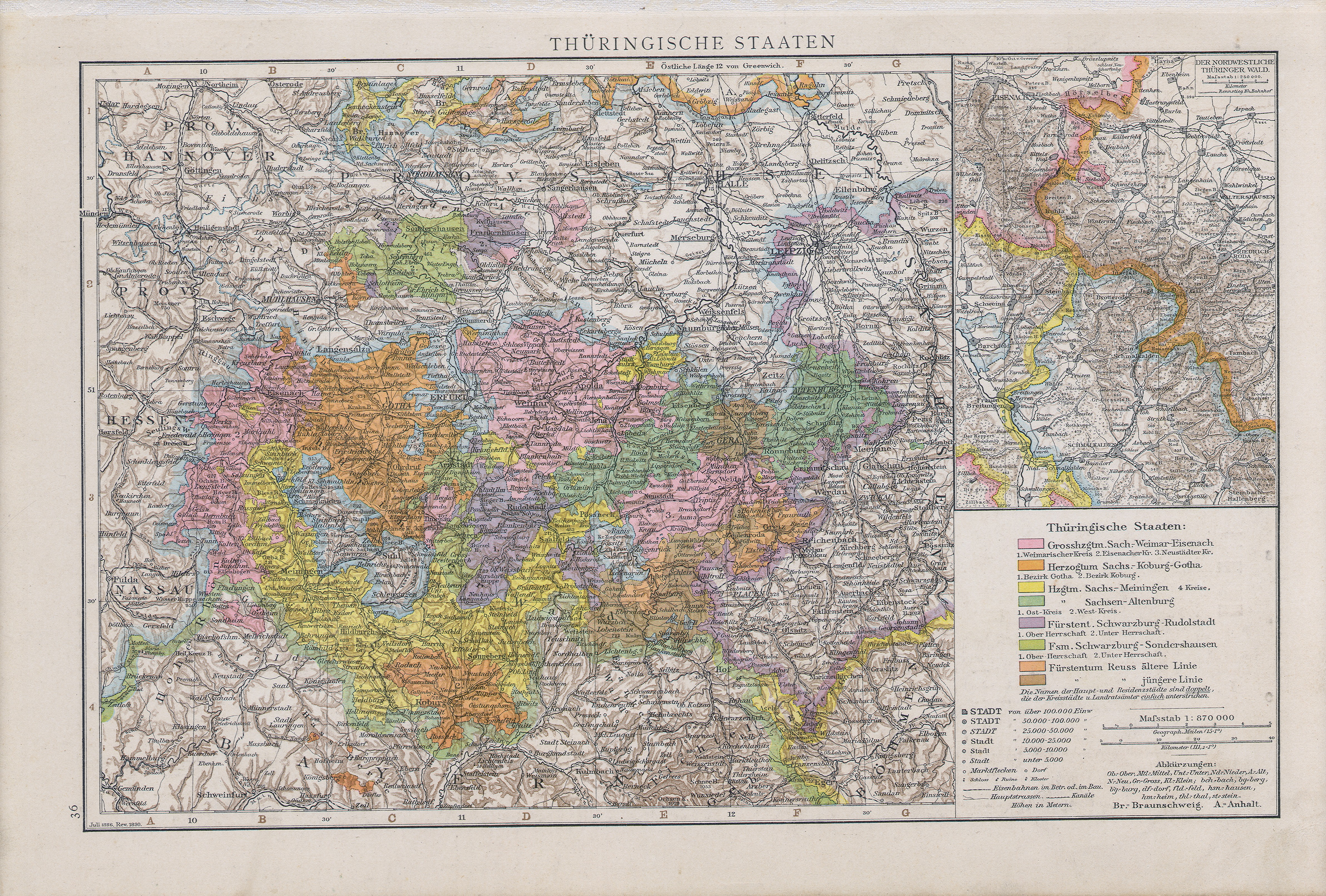 Map of Thuringian States, 1890